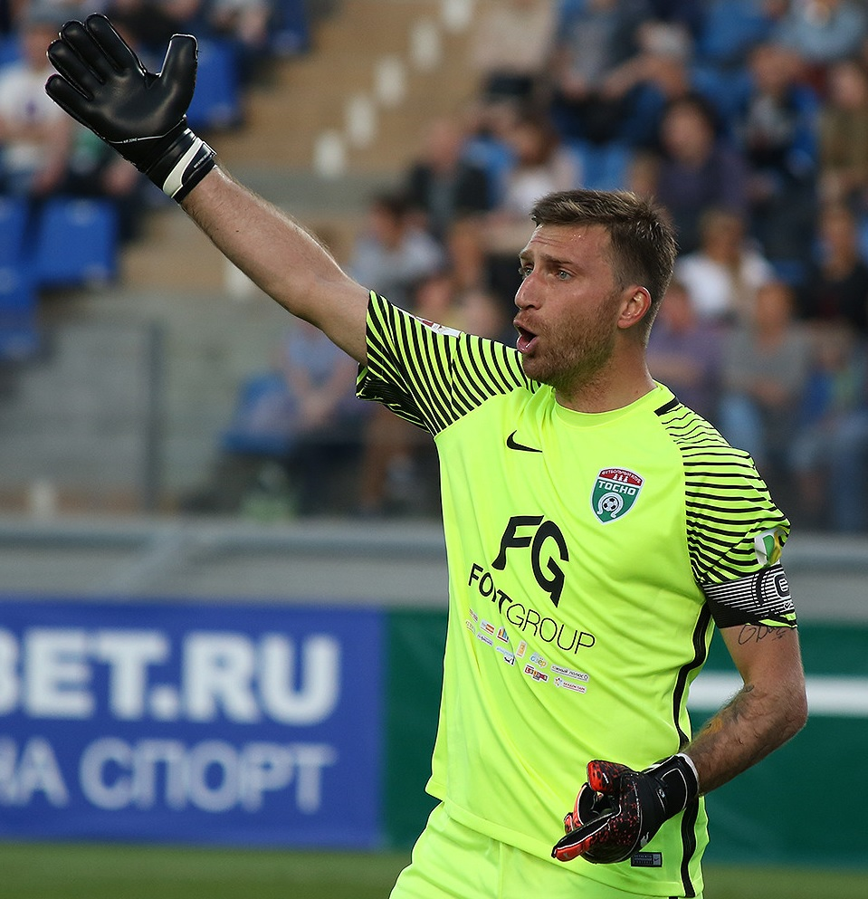 David Yurchenko with FC Tosno in a game against PFC CSKA Moscow.